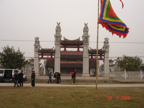 The gate of the Tran Temple (Thai Binh) in Hung Ha, Thai Binh Province, Vietnam.